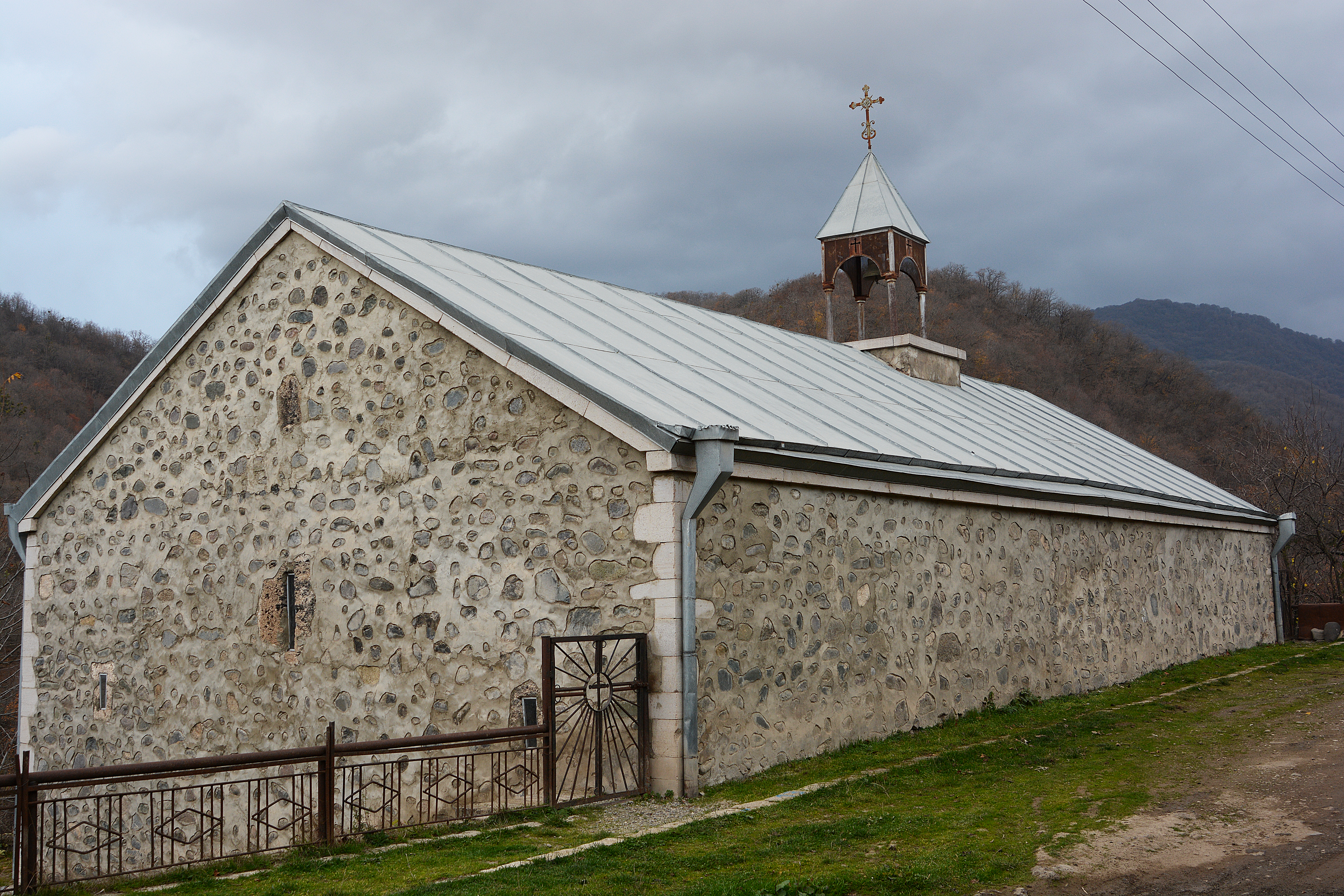 Church